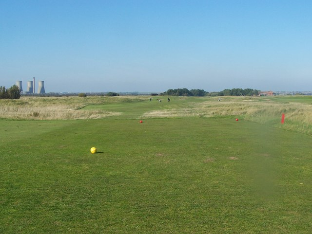 Prince's Golf Course, 7th Shore. Now demolished Richborough Power Station on left in background and New Club House on right.